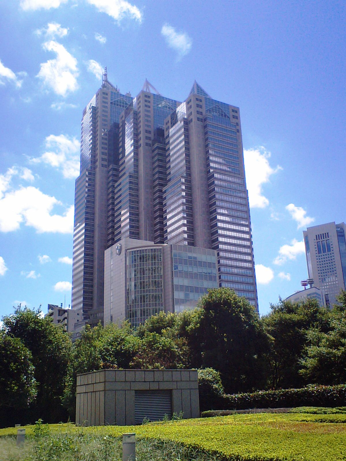 ParkHyattTokyo